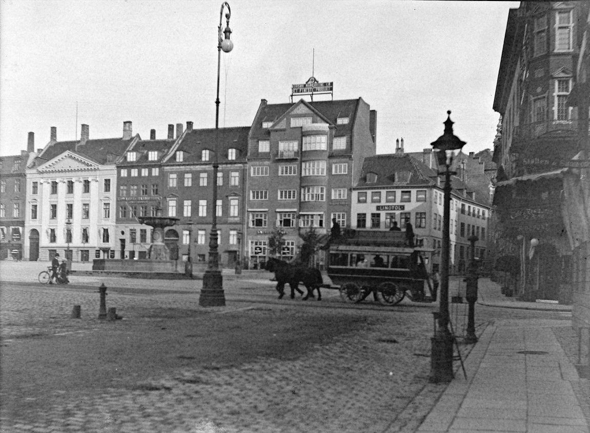 Gammeltorv in Copenhagen, Denmark